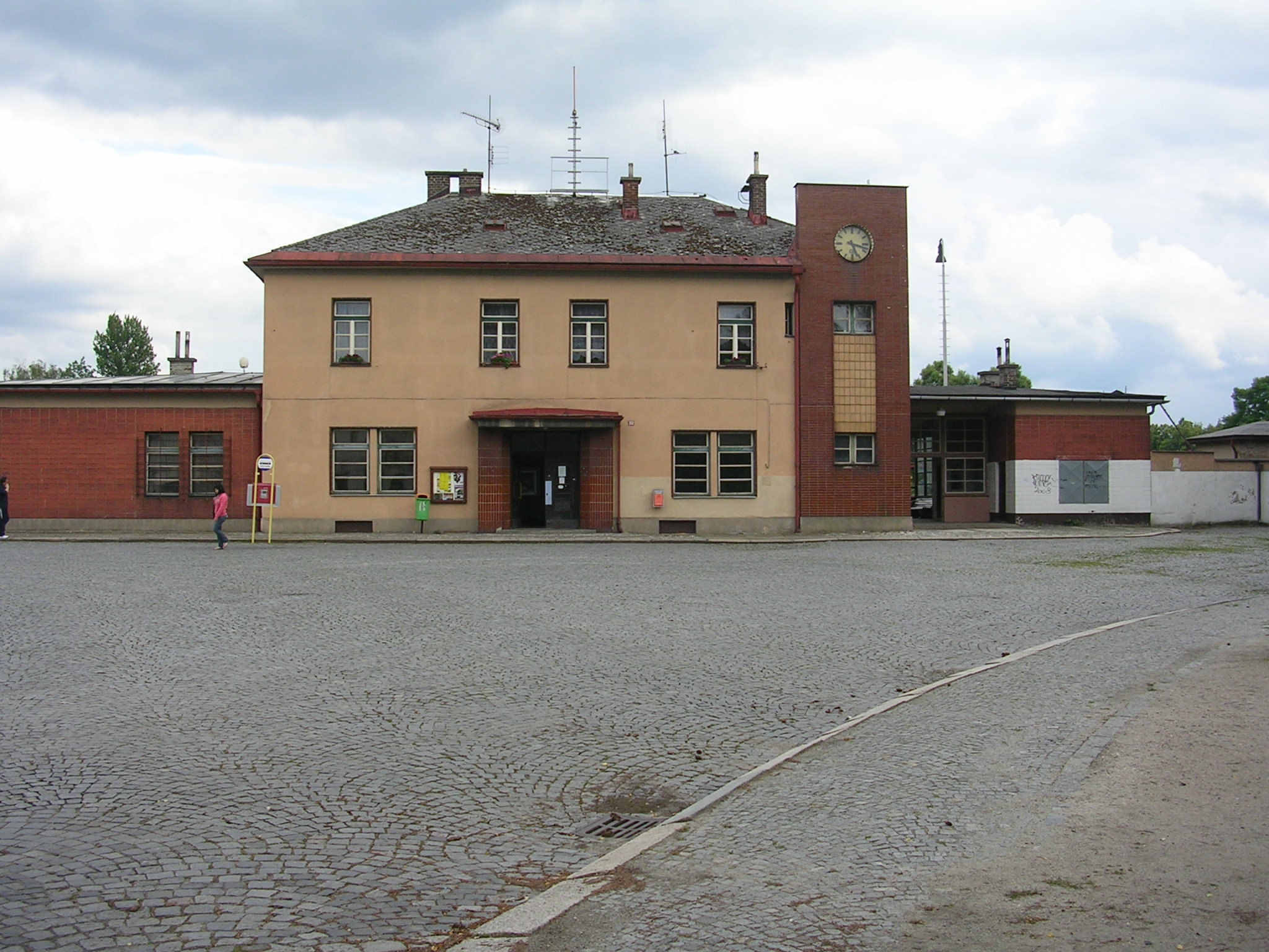 Mnichovo Hradiště, Mladá Boleslav District, Central Bohemian Region, the Czech Republic. The train station.